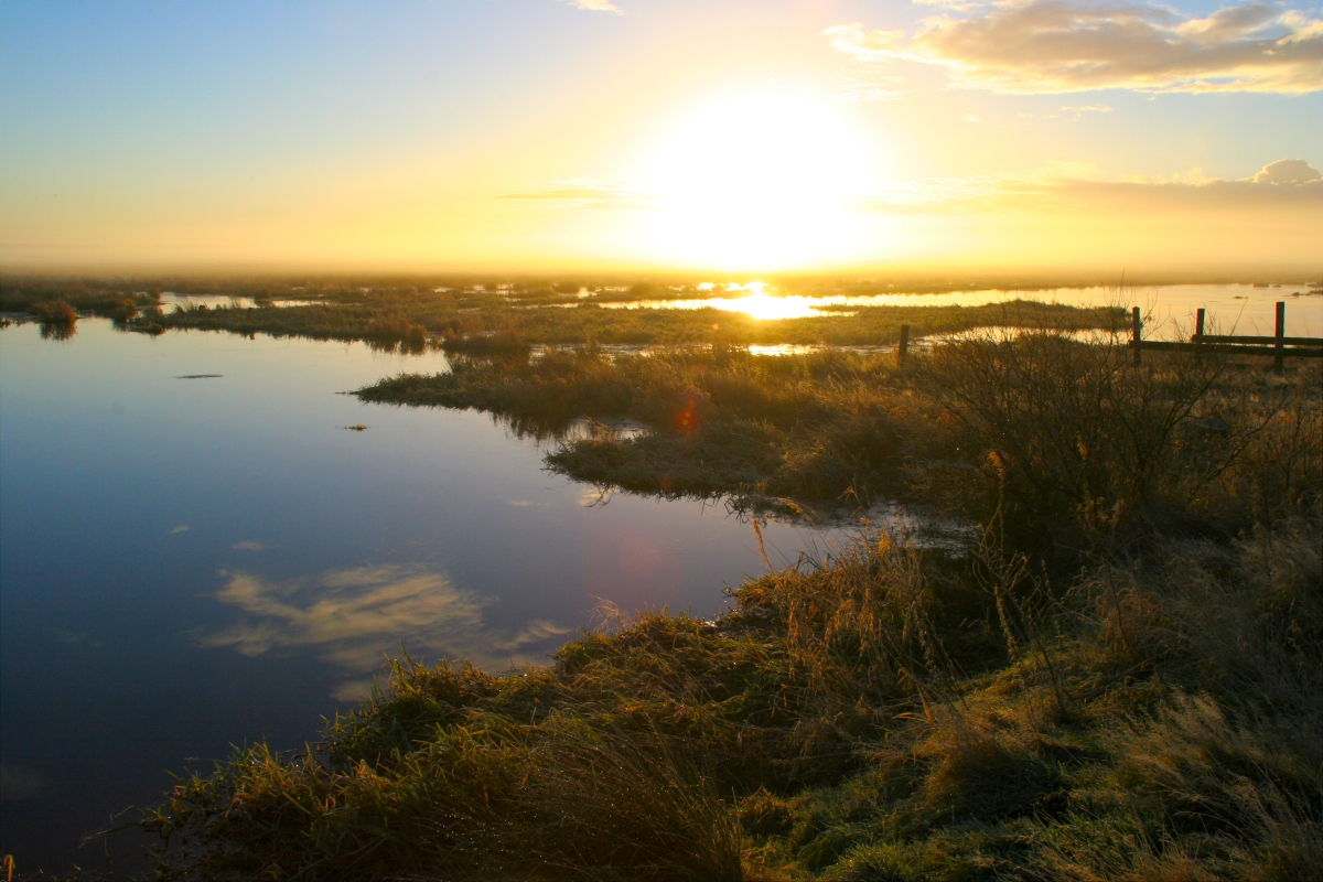 Skjern River Meadows